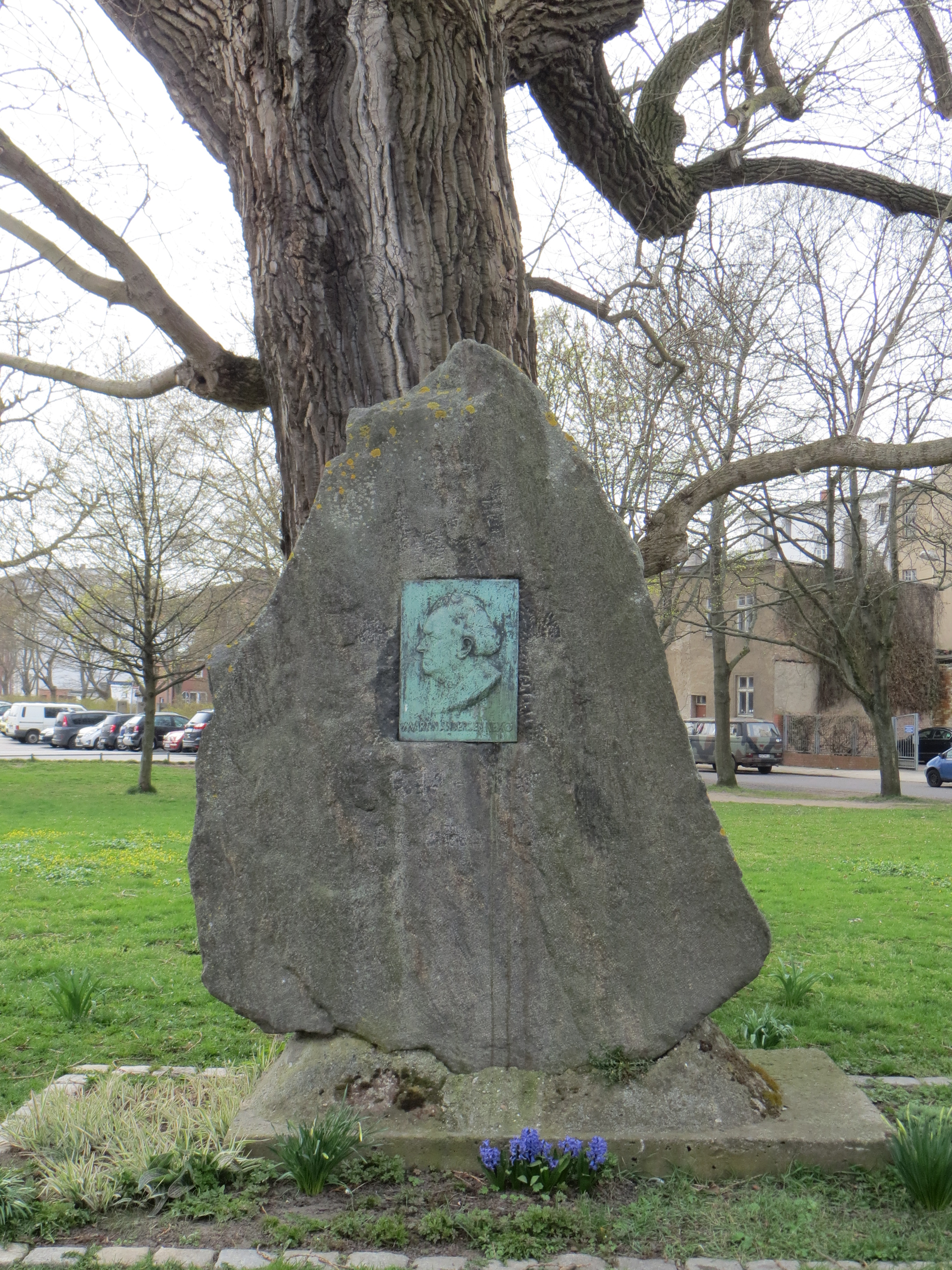 Martin Andersen Nexø monument in Greifswald